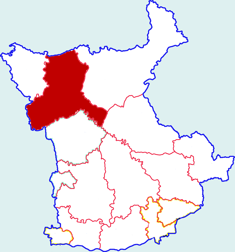 Location of Bin county in Xianyang city, China